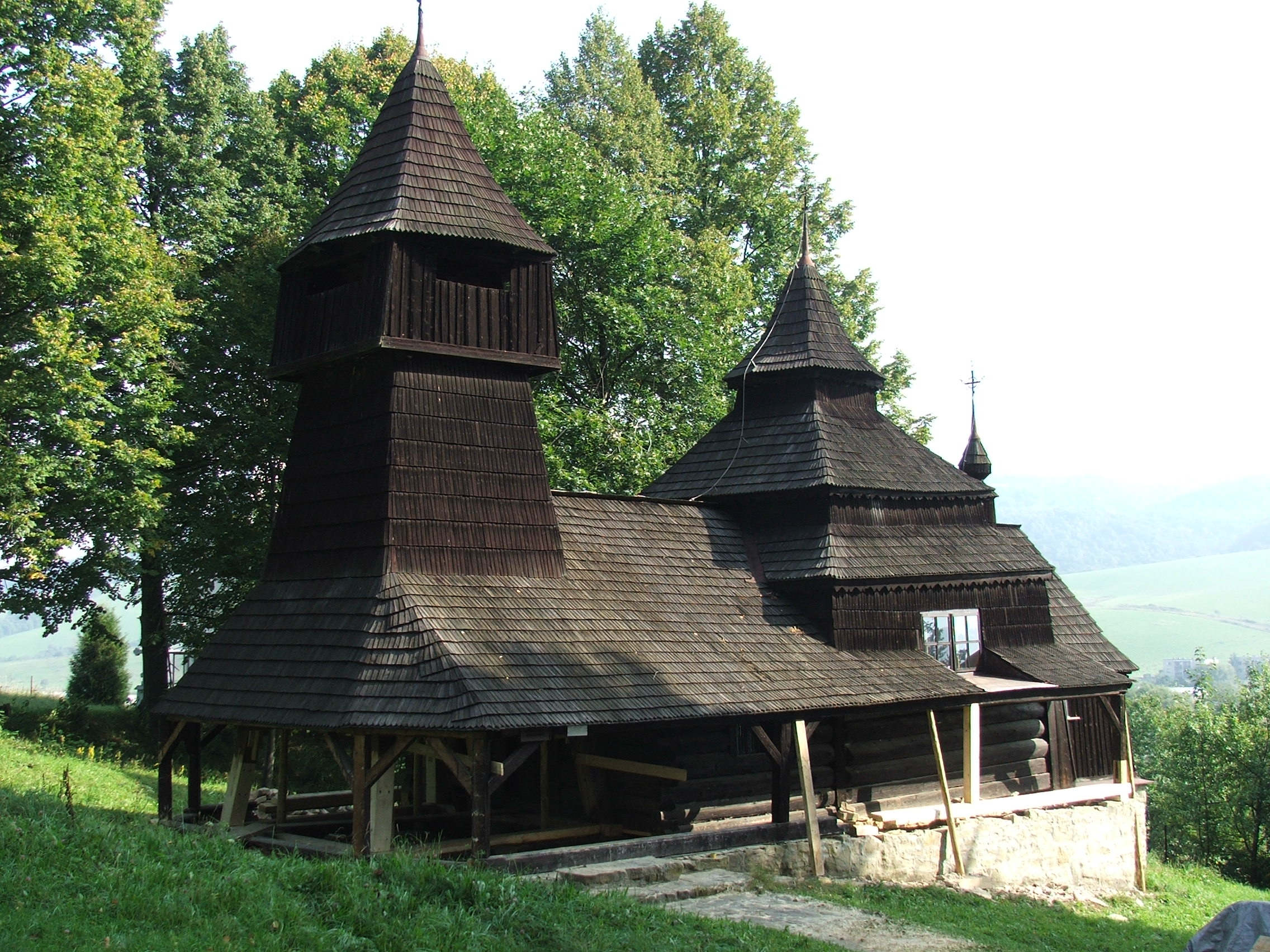 Wooden Greek-Catholic Church of St. Cosmo and Damienin in Lukov Venécia in Eastern Slovakia near Bardejov